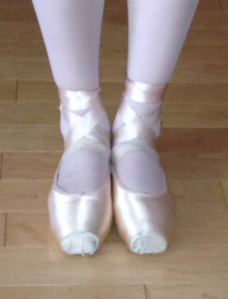 A ballet dancer demonstrating Sixth Position.